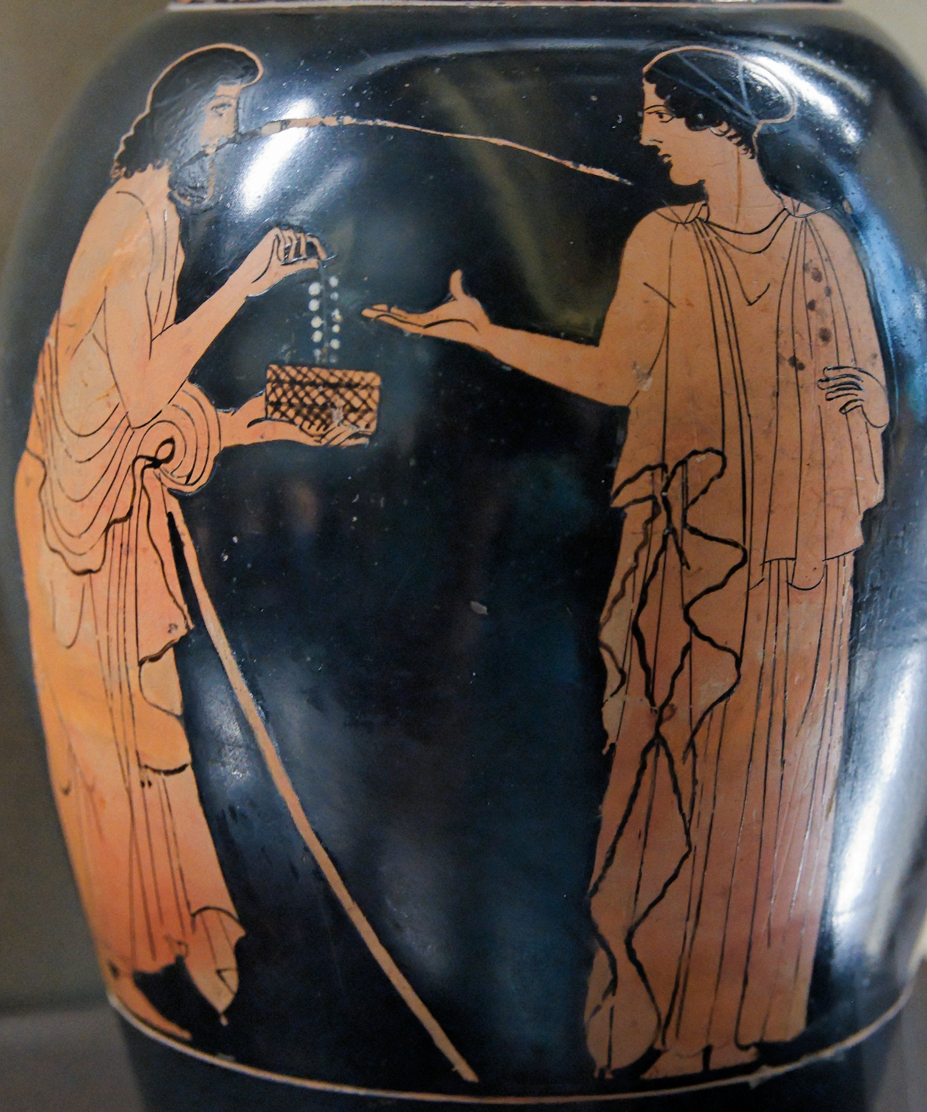 Polynices giving Eriphyle the necklace of Harmonia. Attic red-figure oinochoe.